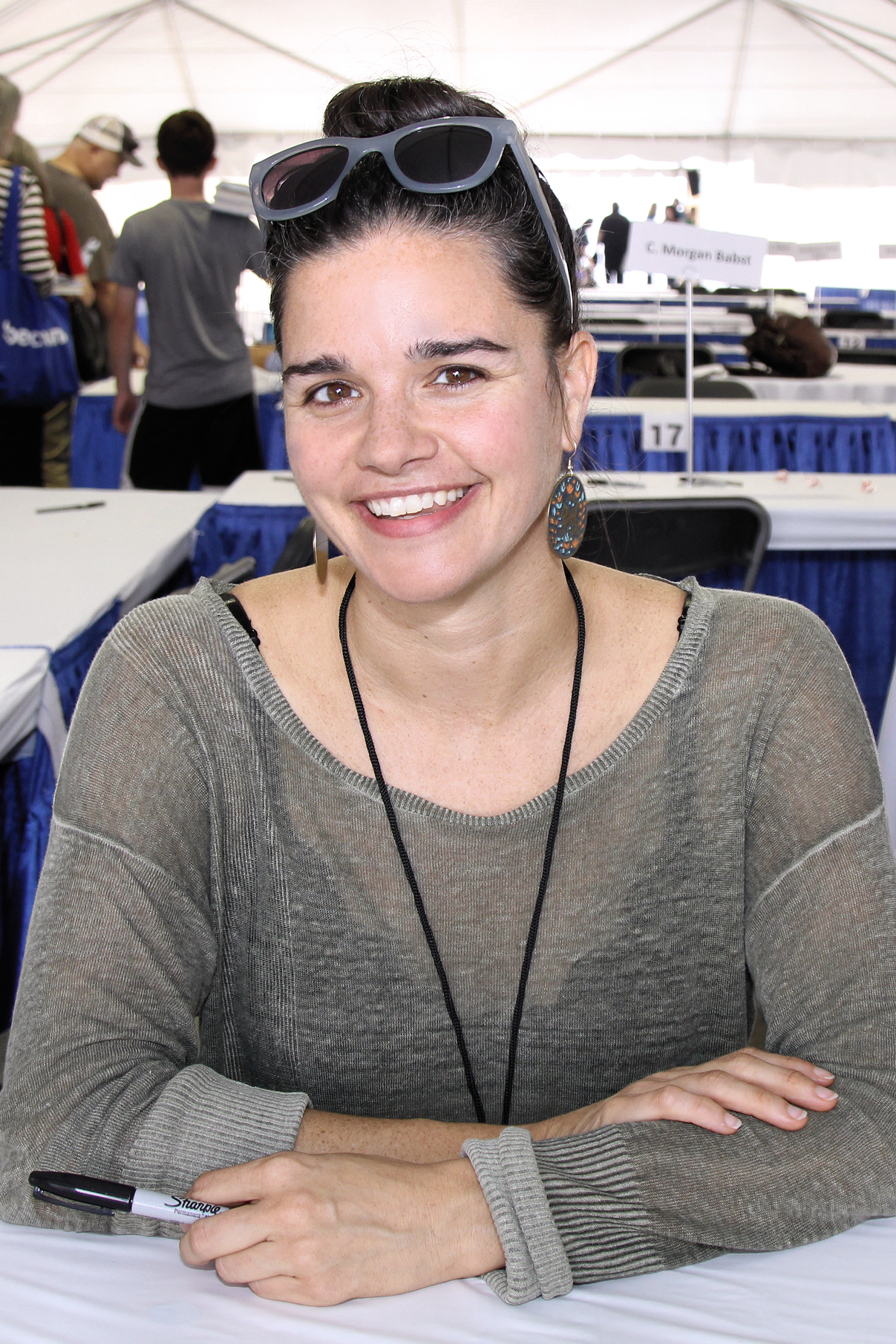 Author Elena Passarello at the 2017 Texas Book Festival.